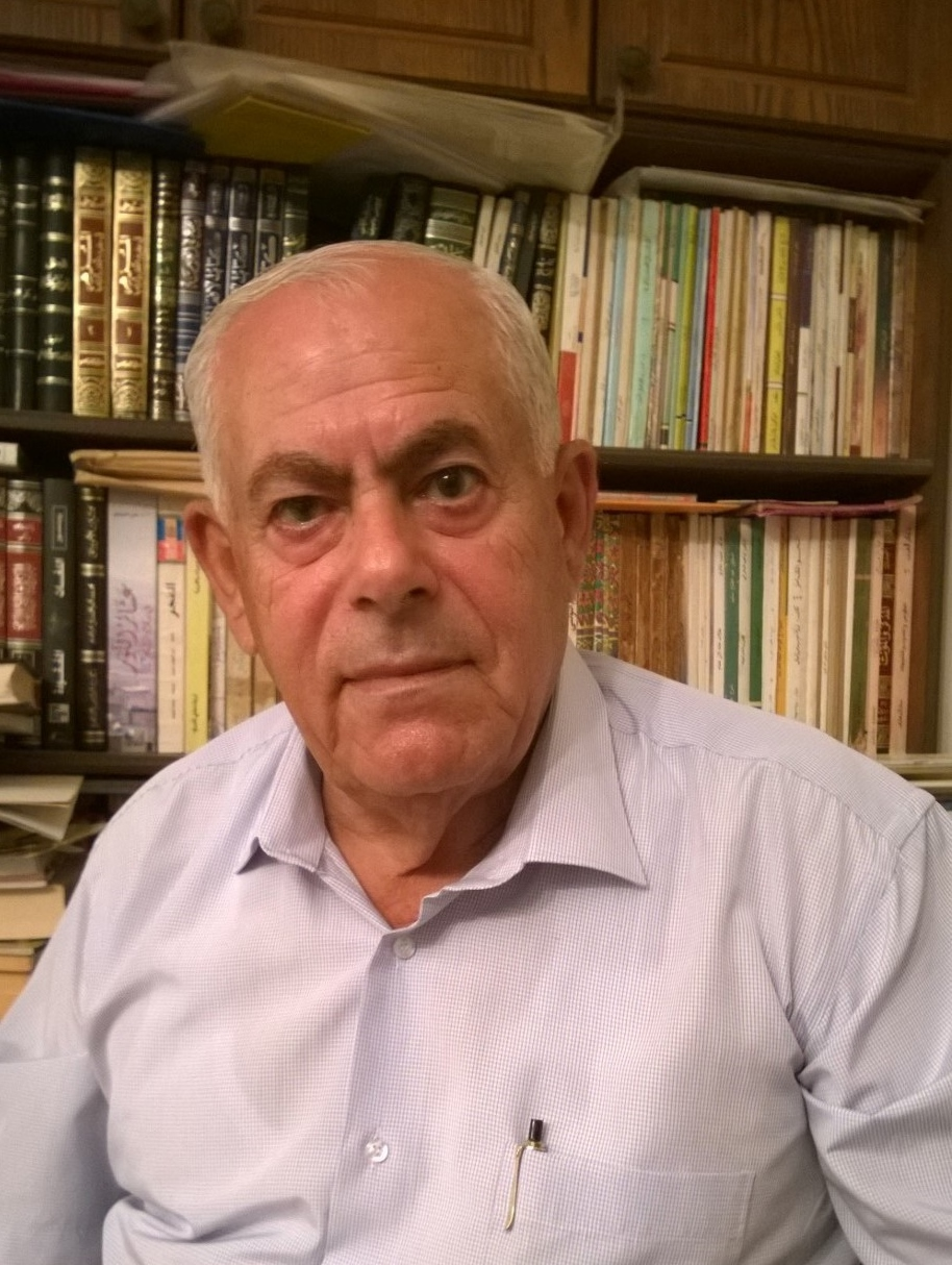 Mahmud Abu Rajab